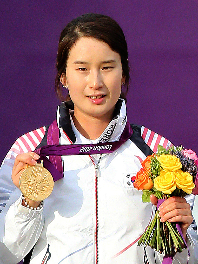 2012 London Olympic Games Korea Ki Bo Bae won the gold medal in women's archery 2012. 08.03. hoto by Korean Olympic Committee Ministry of Culture, Sports and Tourism Korean Culture and Information Service 2012 런던 올림픽 한국 여자 양궁 개인전 기보배 금메달 획득 사진제공 - 대한체육회 문화체육관광부 해외문화홍보원